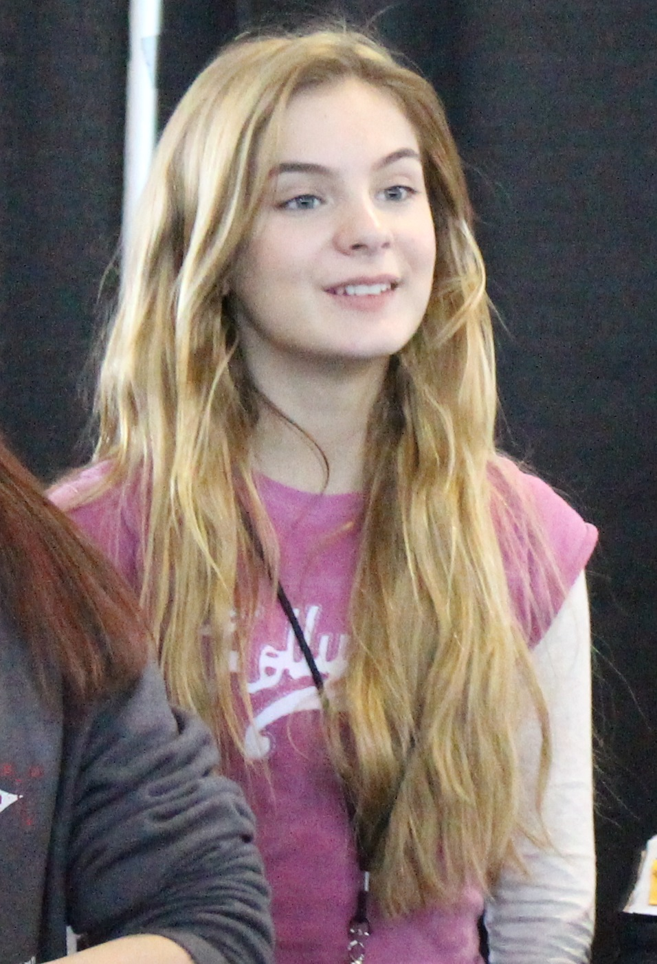 Brighton Sharbino at WalkerStalker on, Jan 2015